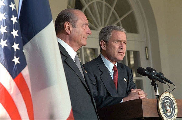 President George W. Bush and French President Jacque Chirac address the media in the Rose Garden November 6, 2001, from